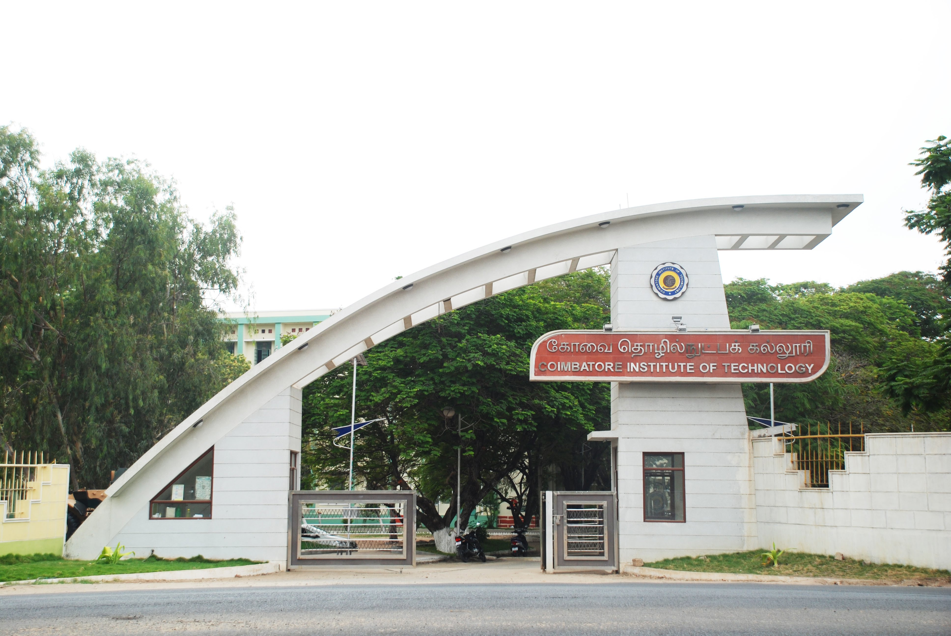 CIT entrance